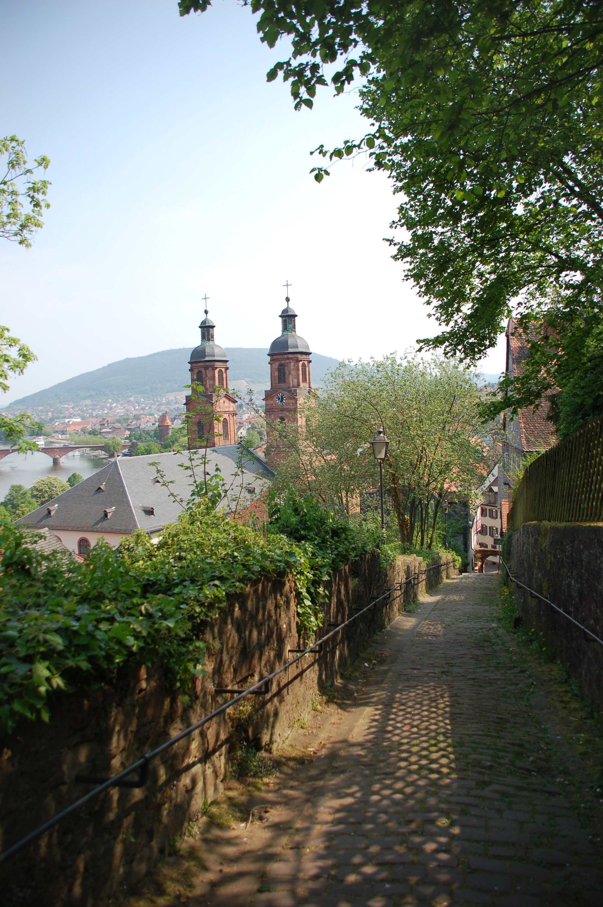 Overview of in Miltenberg